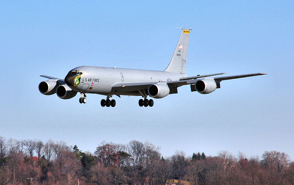 CORAOPOLIS, Pa. -- A KC-135 Stratotanker belonging to the 171st Air Refueling Wing lands at Pittsburgh International Airport on January 3, 2011. One of the unit's aircraft has been affixed with decals from the National Hockey League in preparation for a flyover for the Winter Classic event held in Pittsburgh January 1. (U.S. Air Force photo by Master Sgt. Ann Young/Released)